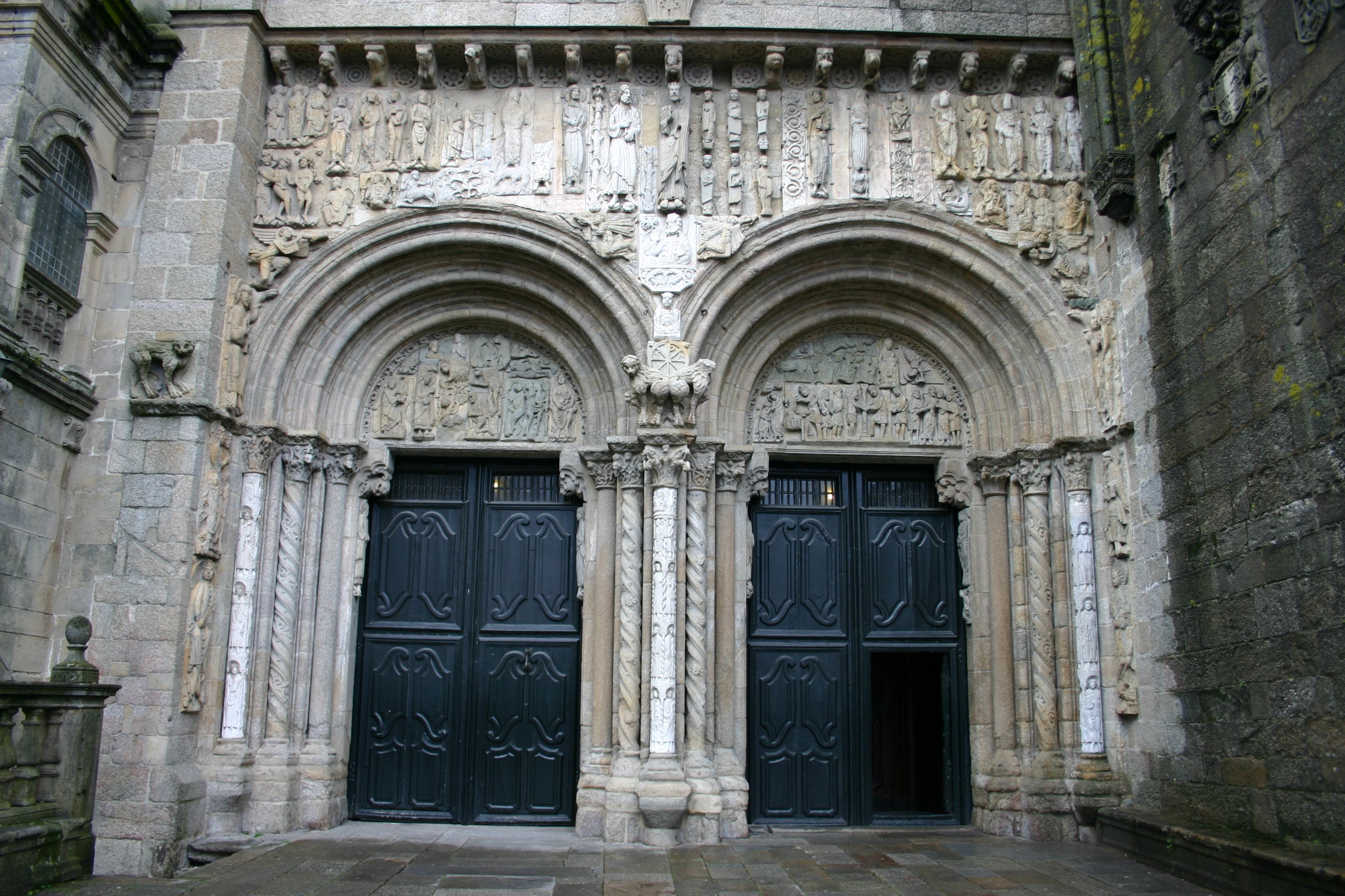 Meridional door of the Santiago de Compostela cathedral, Galicia (Spain) Author: User:Yearofthedragon